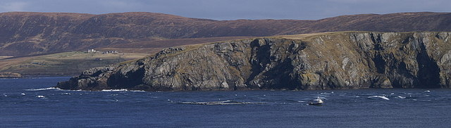 Bluemull Head from Yell A small boat is moving a salmon cage through Bluemull Sound in the foreground, although a strong tide race is running. Taken from Cullivoe on Yell.